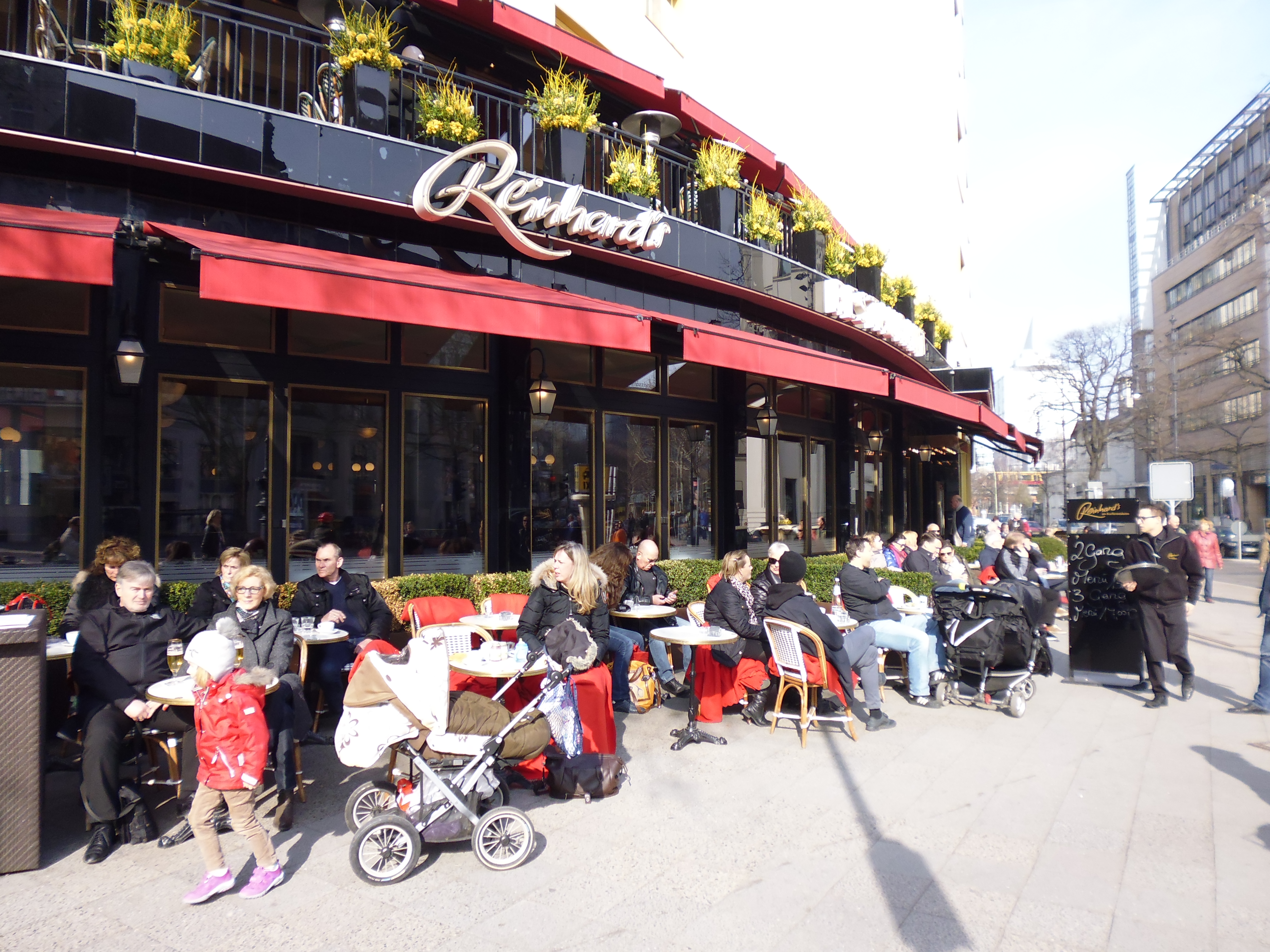 Frontside Kempinski Bristol